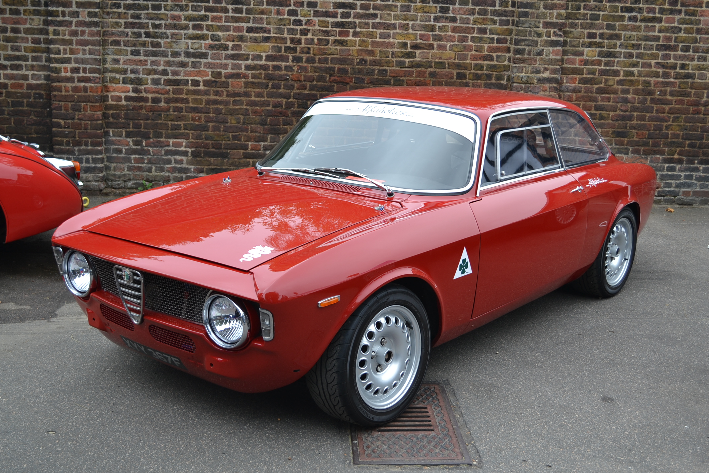 Chelsea Auto Legends 2012